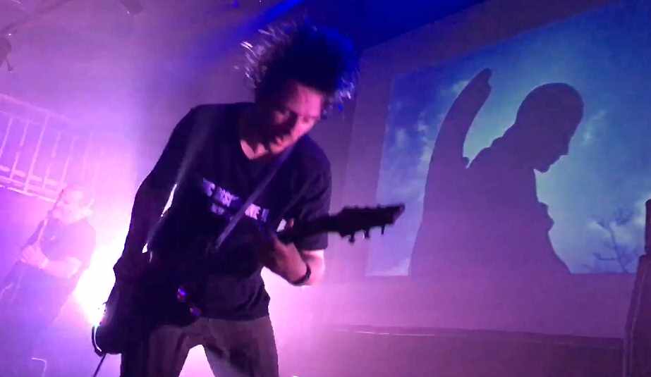 The singer in full swing